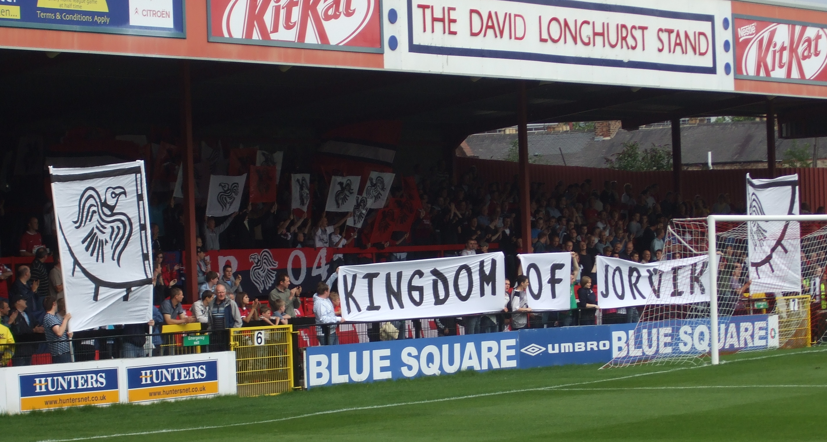 The David Longhurst Stand at Bootham Crescent, York before a match between York City and Barrow on 25 August 2008